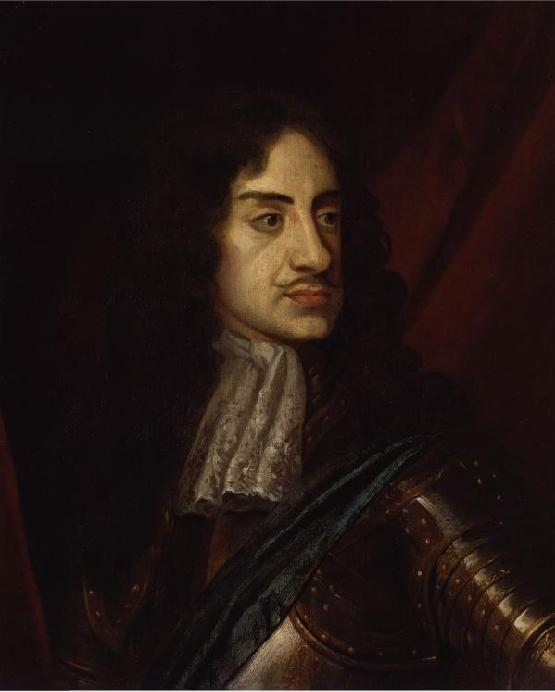 Portrait of Charles II, King of England, Scotland and Ireland